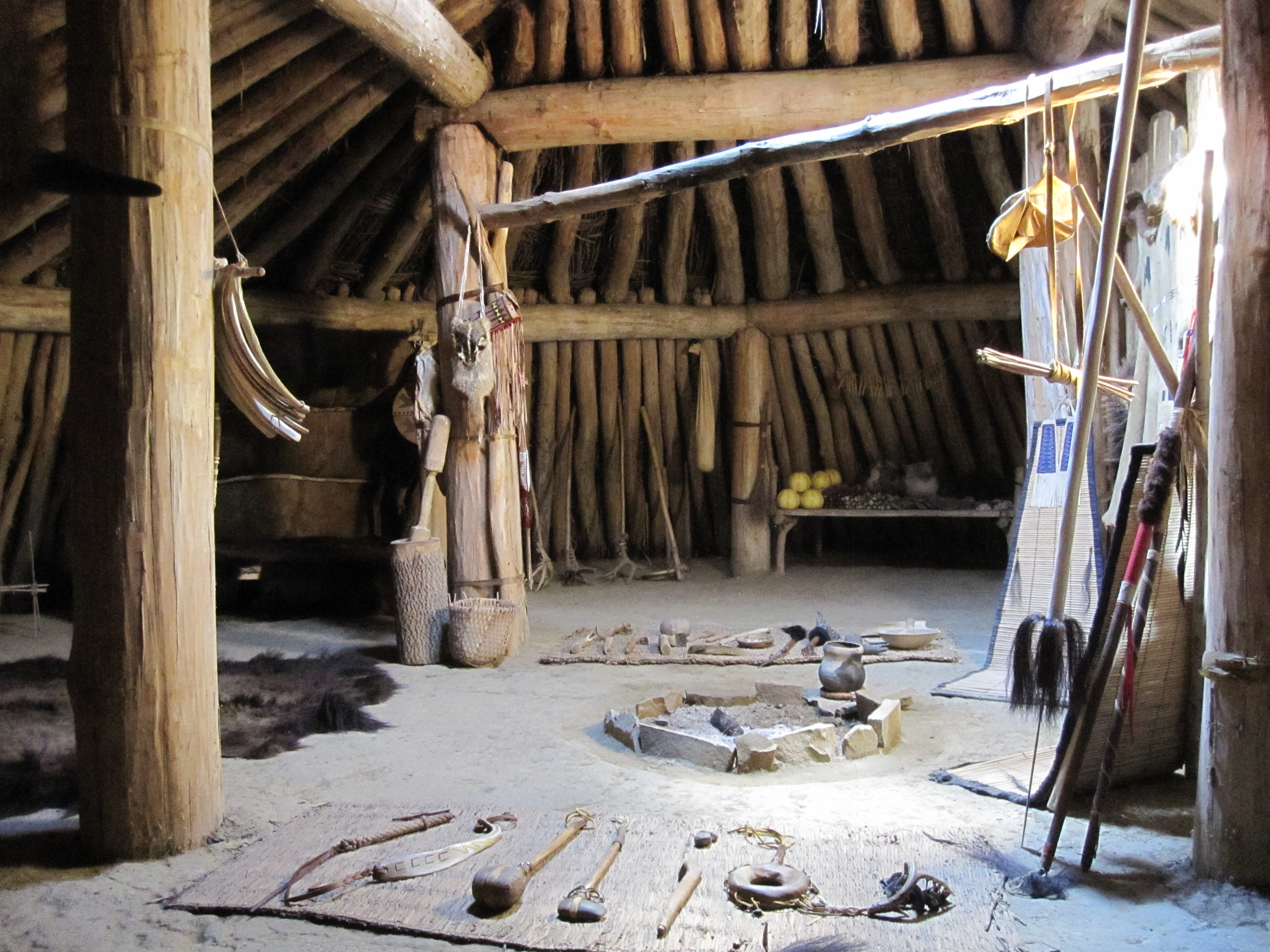 Reconstruction of a Mandan earthlodge interior at Fort Abraham Lincoln State Park south of Mandan, North Dakota